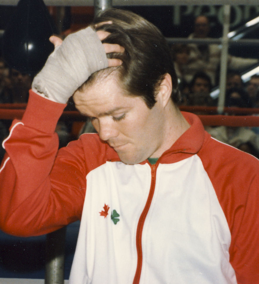 Shawn O'Sullivan, Canadian boxer who won a silver medal in boxing in the 1984 Summer Olympics. Taken in Ottawa (one of the shopping malls) after the Olympics.